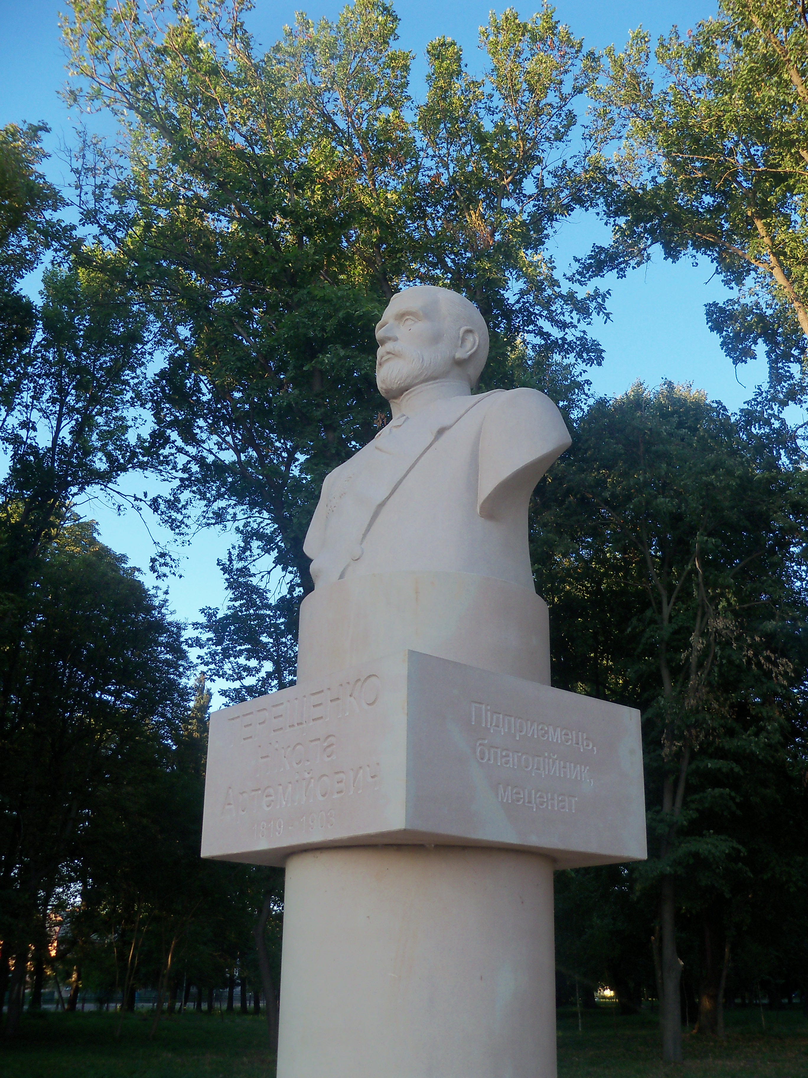 Bust of Nicola Tereshchenko in Andrushivka